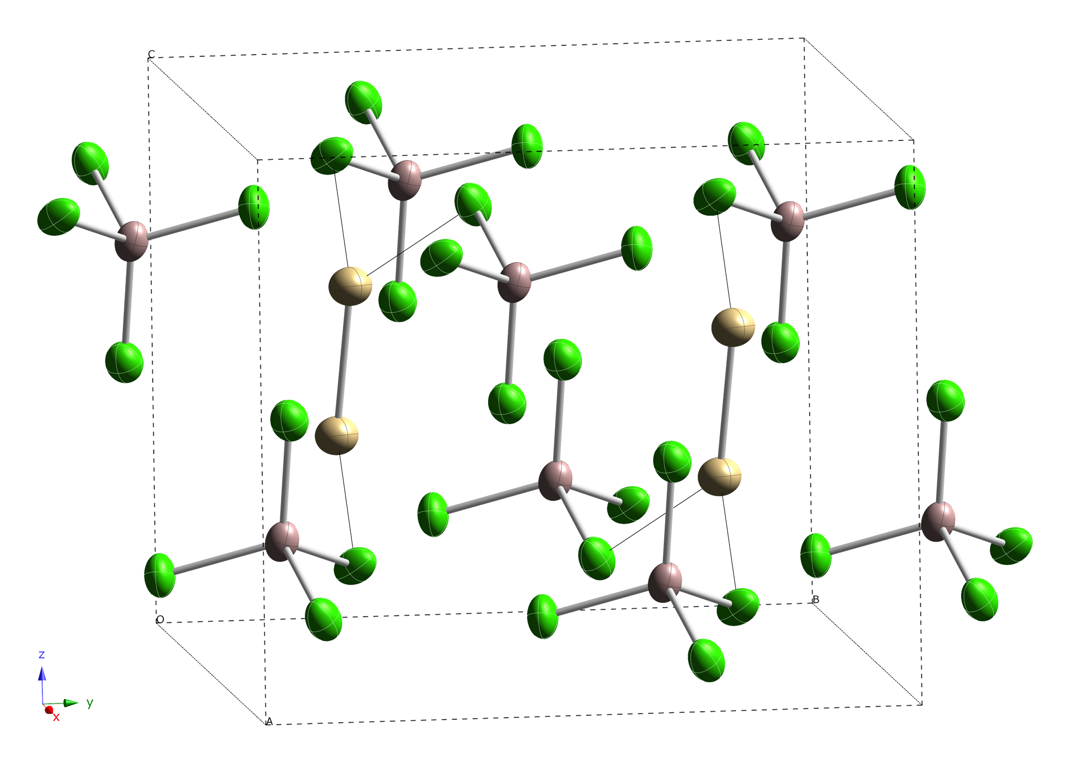 Thermal ellipsoid model of the unit cell of the crystal structure of cadmium(I) tetrachloroaluminate, Cd2[AlCl4]2. Colour code: Cadmium, Cl: pale yellow Aluminium, Al: pink-brown Chlorine, Cl: green Crystal structure data from Z. anorg. allg. Chem. (1987) 548, 45-54. Image generated in CrystalMaker 8.3.